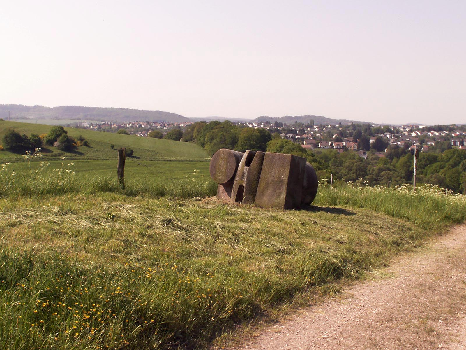 Street of Sculptures - Strasse der Skulpturen - Rudi Scheuermann, Komposition mit stereogeometrischen Elementen, 1971